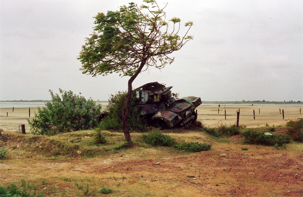 A tank rusting by a tree in the area around Elephant Pass (in Tamil, ஆனையிறவு). The area is strategically significant - it has a military base which controls access to the Jaffna peninsula - and has therefore been the site of several battles between Tamil rebels and the Sri Lankan Army in the Sri Lankan civil war. The area is currently under the control of the LTTE, which captured it from the Sri Lankan Army following a fierce battle in April 2000.